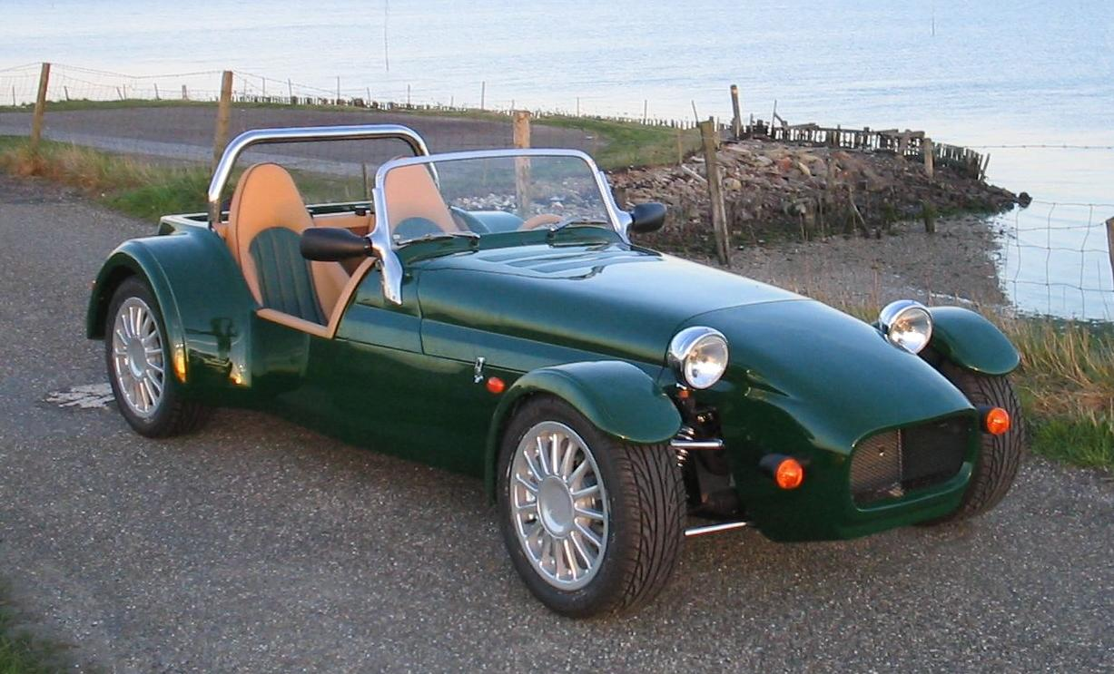 Westfield SEiW.